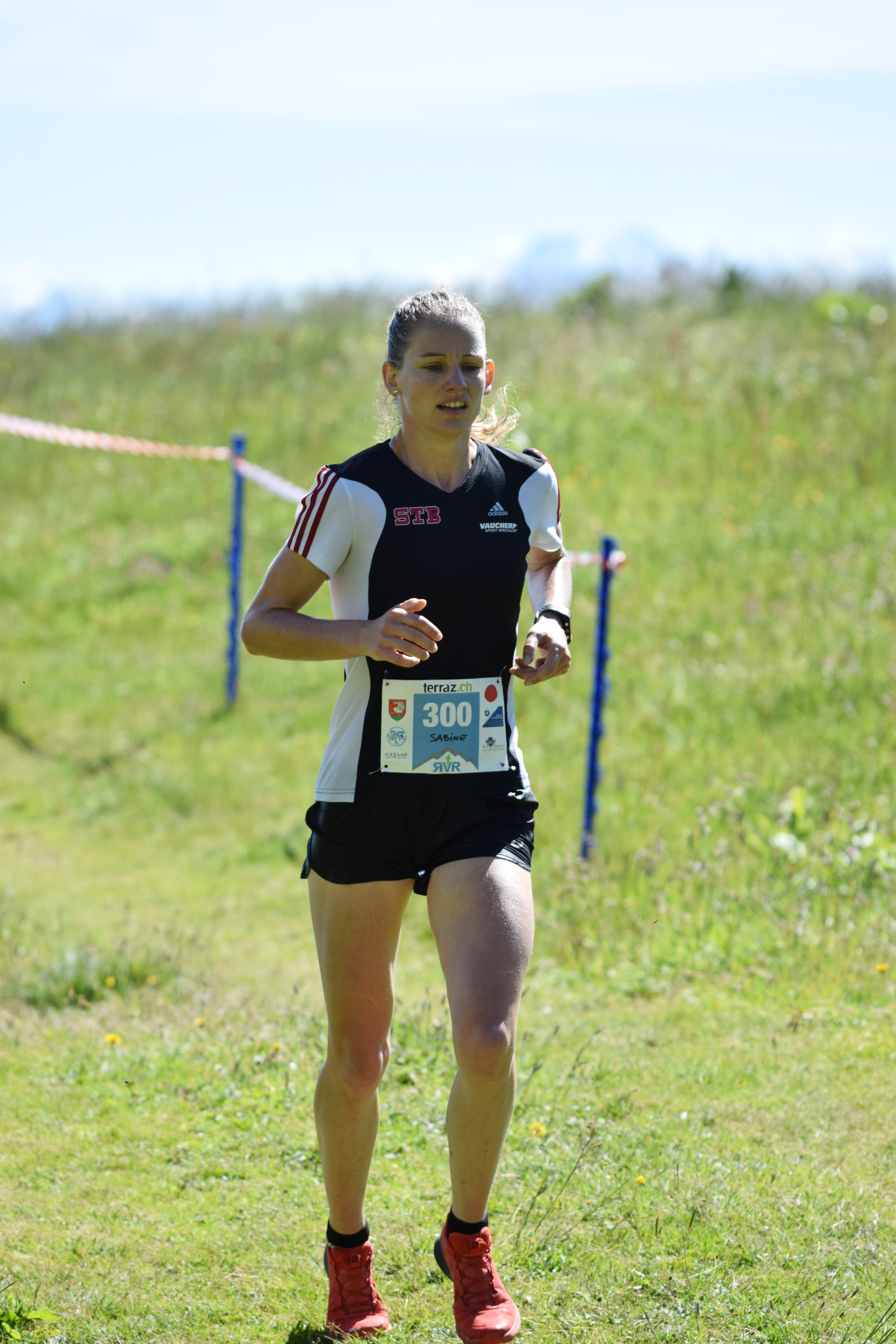 Sabine Hauswirth at 2020 Rougemont-Videmanette Run